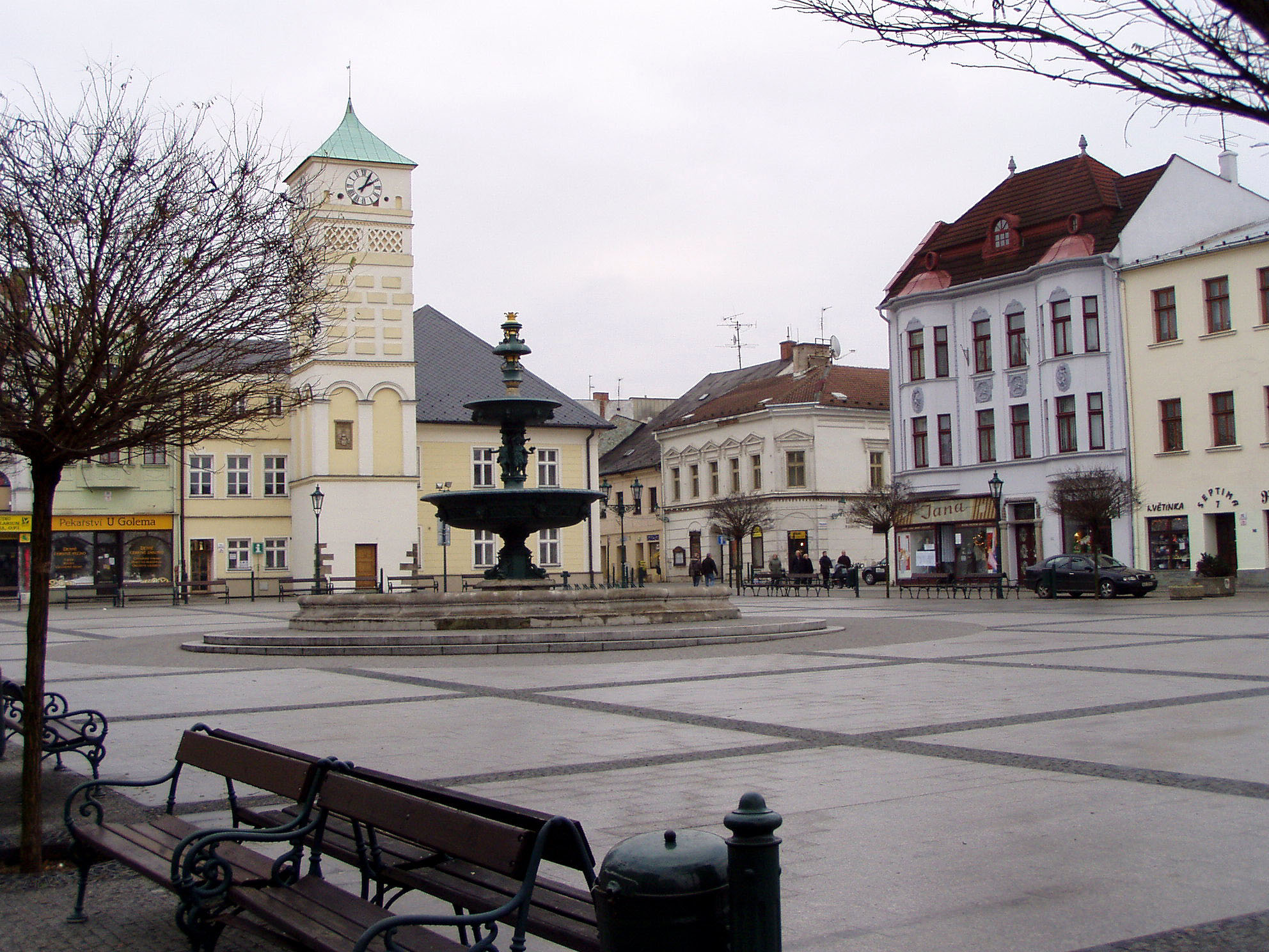 Town square in Karviná-Fryštát